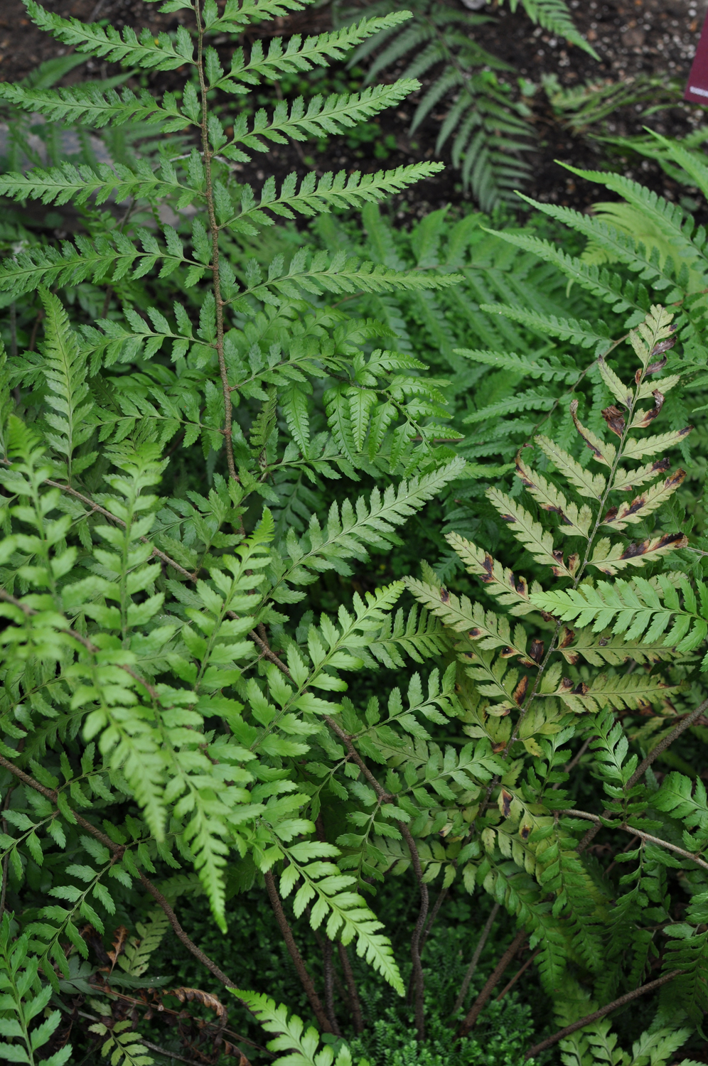 Polystichum drepanum Conservatoire botanique national de Brest Native nameConservatoire botanique national de BrestLocationBrest, FranceCoordinates48° 24′ 10.35″ N, 4° 26′ 53.58″ W Established1975: established, 1978: opened to publicWeb page Authority control : Q2994486 VIAF: 135879850 ISNI: 0000 0000 9261 8684 LCCN: no95047958 WorldCat institution QS:P195,Q2994486